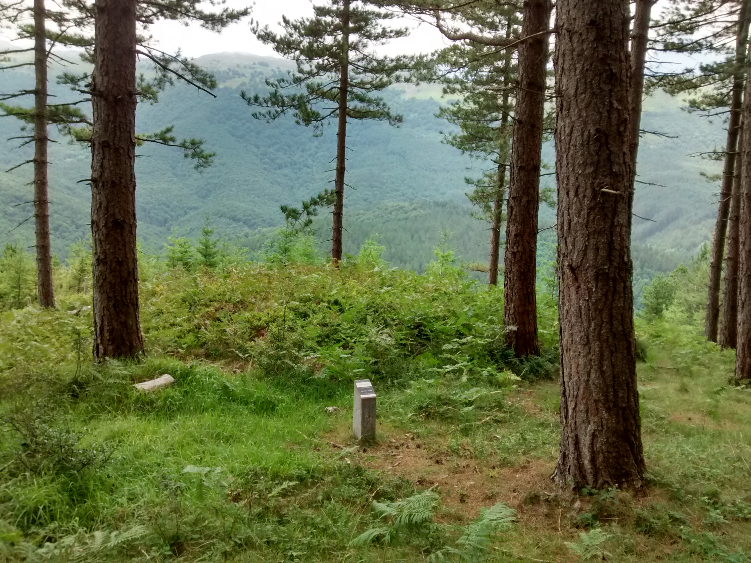 Arratolagaña dolmen